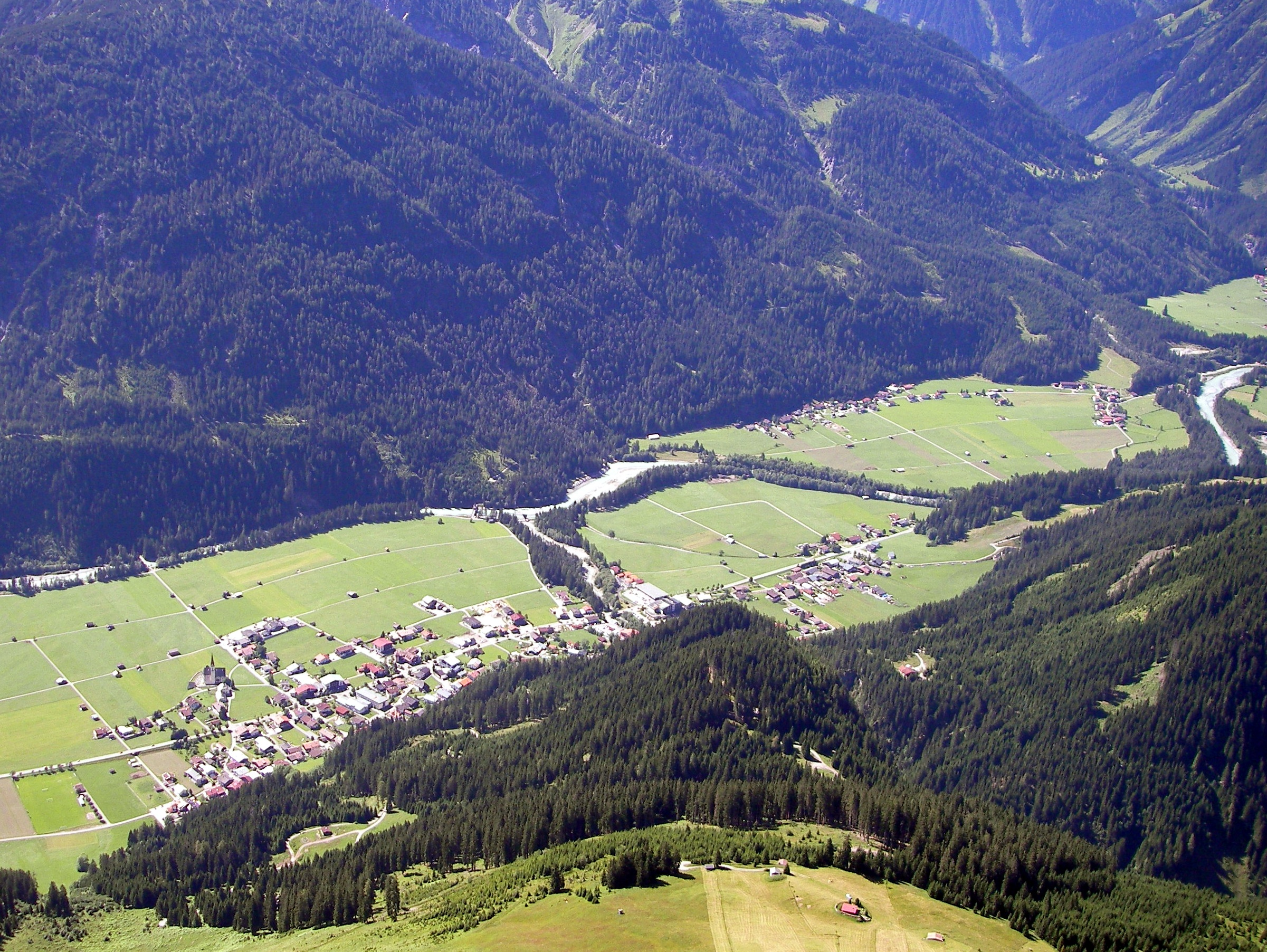 Elbigenalp, view from the Rotwand mountain